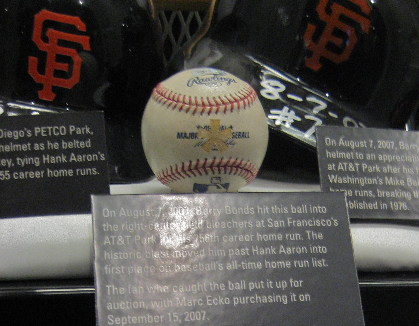 Barry Bonds' 756th home run ball in the Baseball Hall of Fame, with the asterisk branded on it by Marc Ecko.